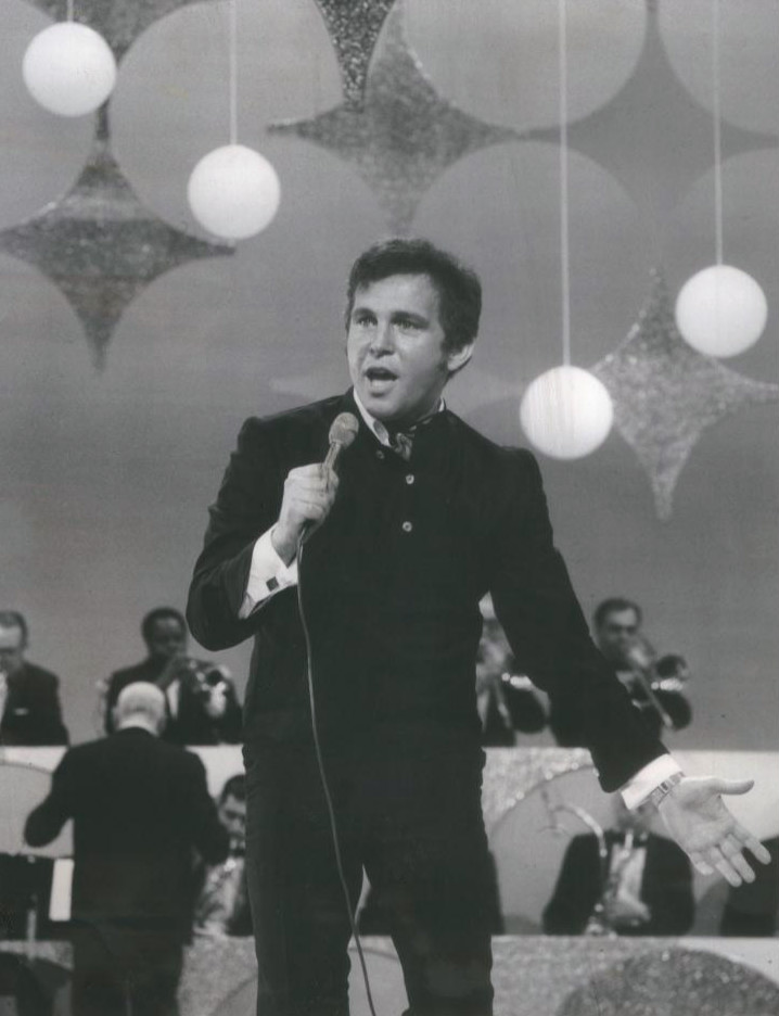 Photo of Bobby Vinton performing from the television program The Ed Sullivan Show.